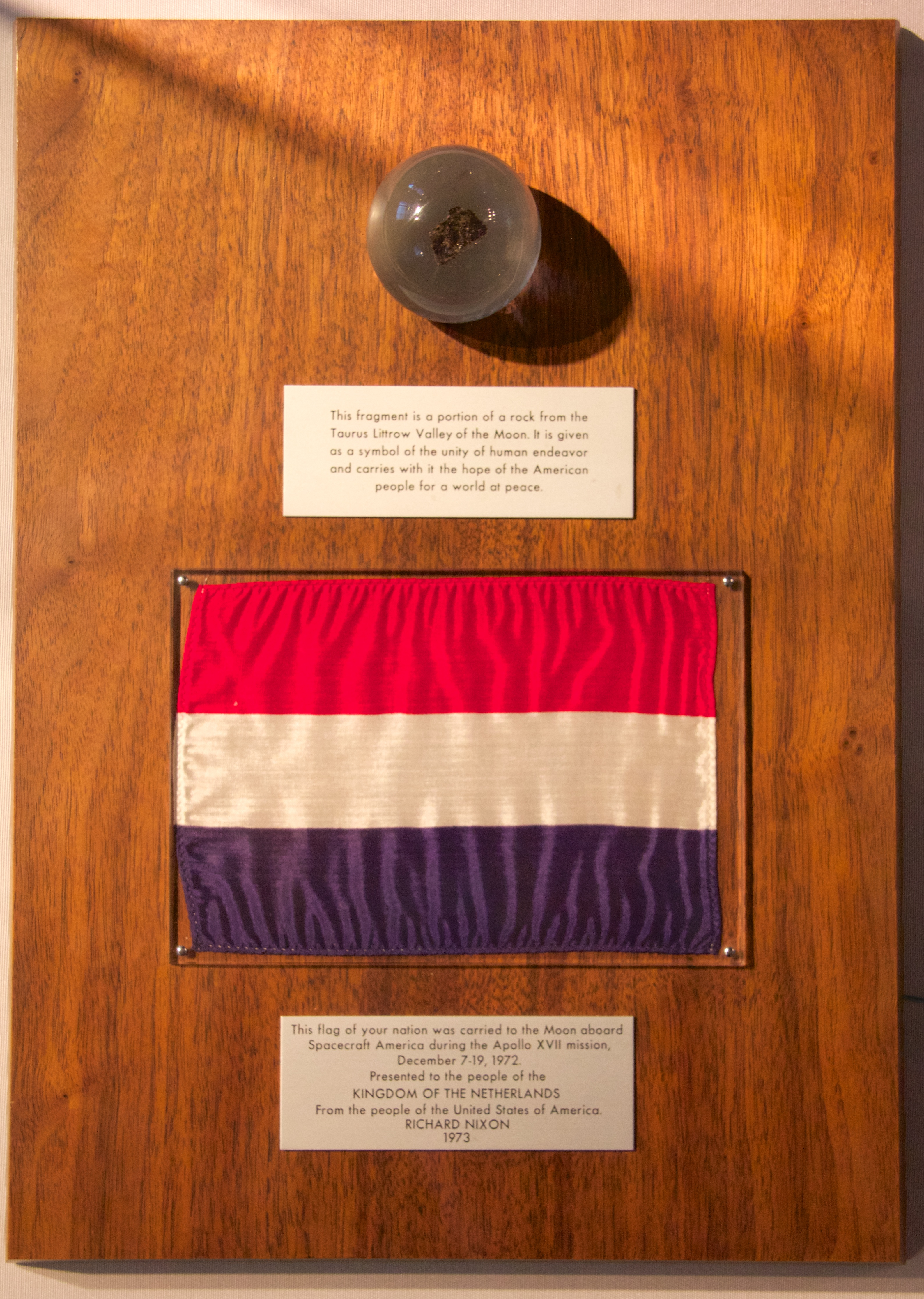 Dutch flag that flew to the moon and back on Apollo 17, along with a fragment of the moon's surface from the Taurus Littrow valley. In the Museum Boerhaave Leiden.